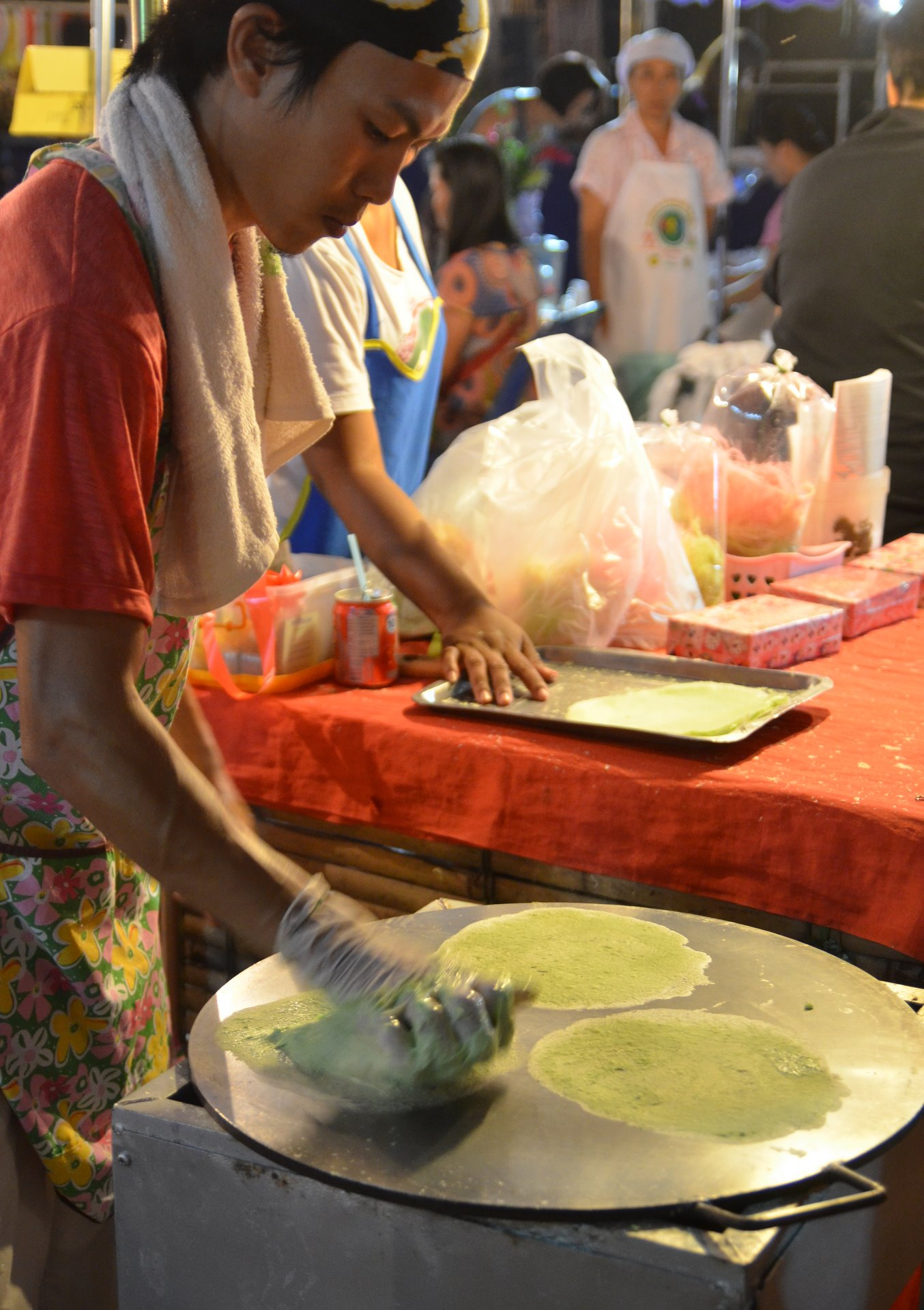 Making roti sai mai (Thai script: โรตีสายไหม). It literally means "silk roti" (roti is a flat bread of Indian origin). These ultra thin pancakes are made by rubbing a sticky dough on to a hot plate. They are used as a wrap for a kind of candy floss. This photo was made at a night market in Uttaradit, Thailand. The final result can be seen here.